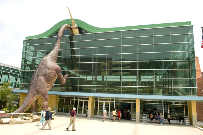 The Children's Museum of Indianapolis Welcome Center, featuring two brachiosaurs attempting to enter the building.